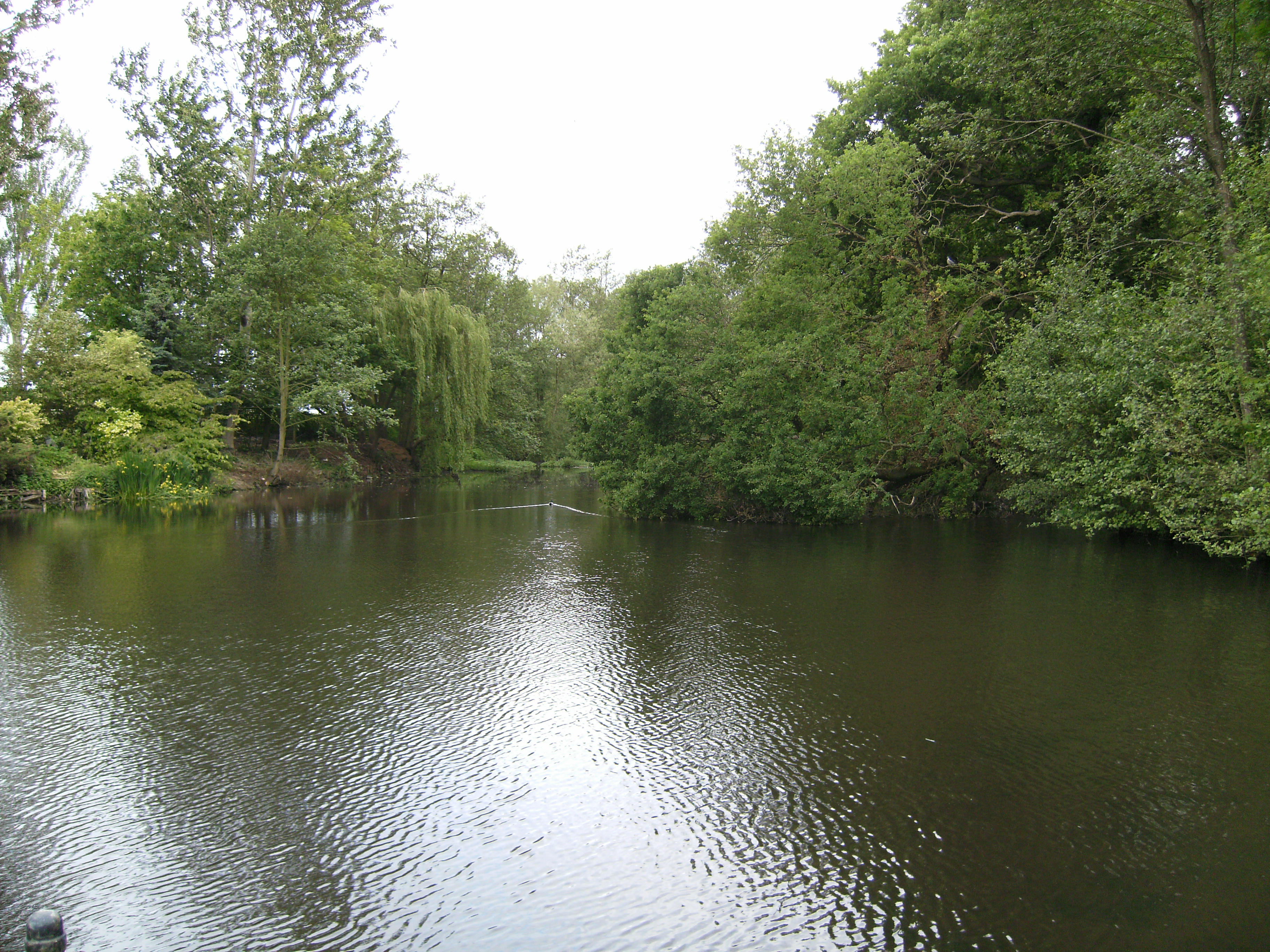 Mill pool on the Snowdon Brook, at the easern edge of Badger parish, Shropshire, England.